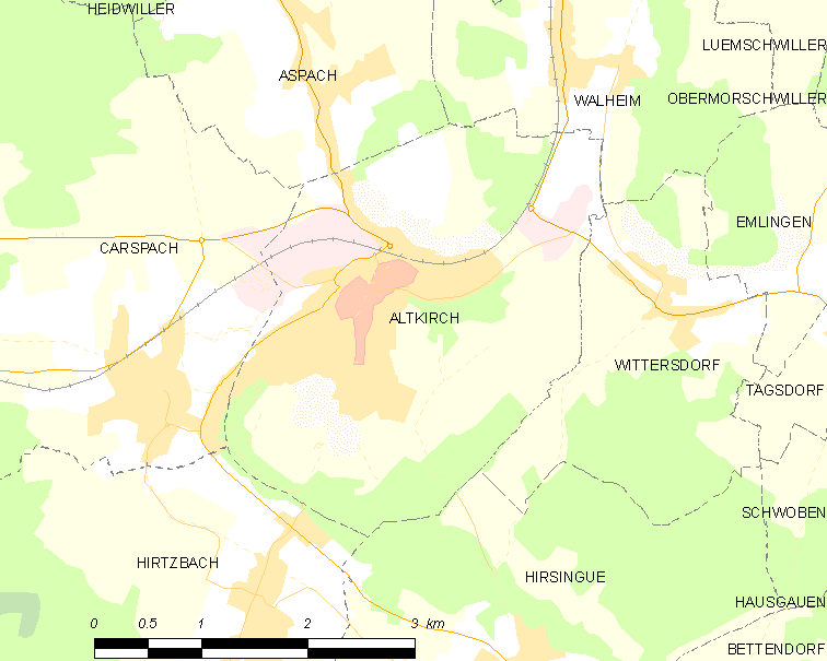 Map of French municipality